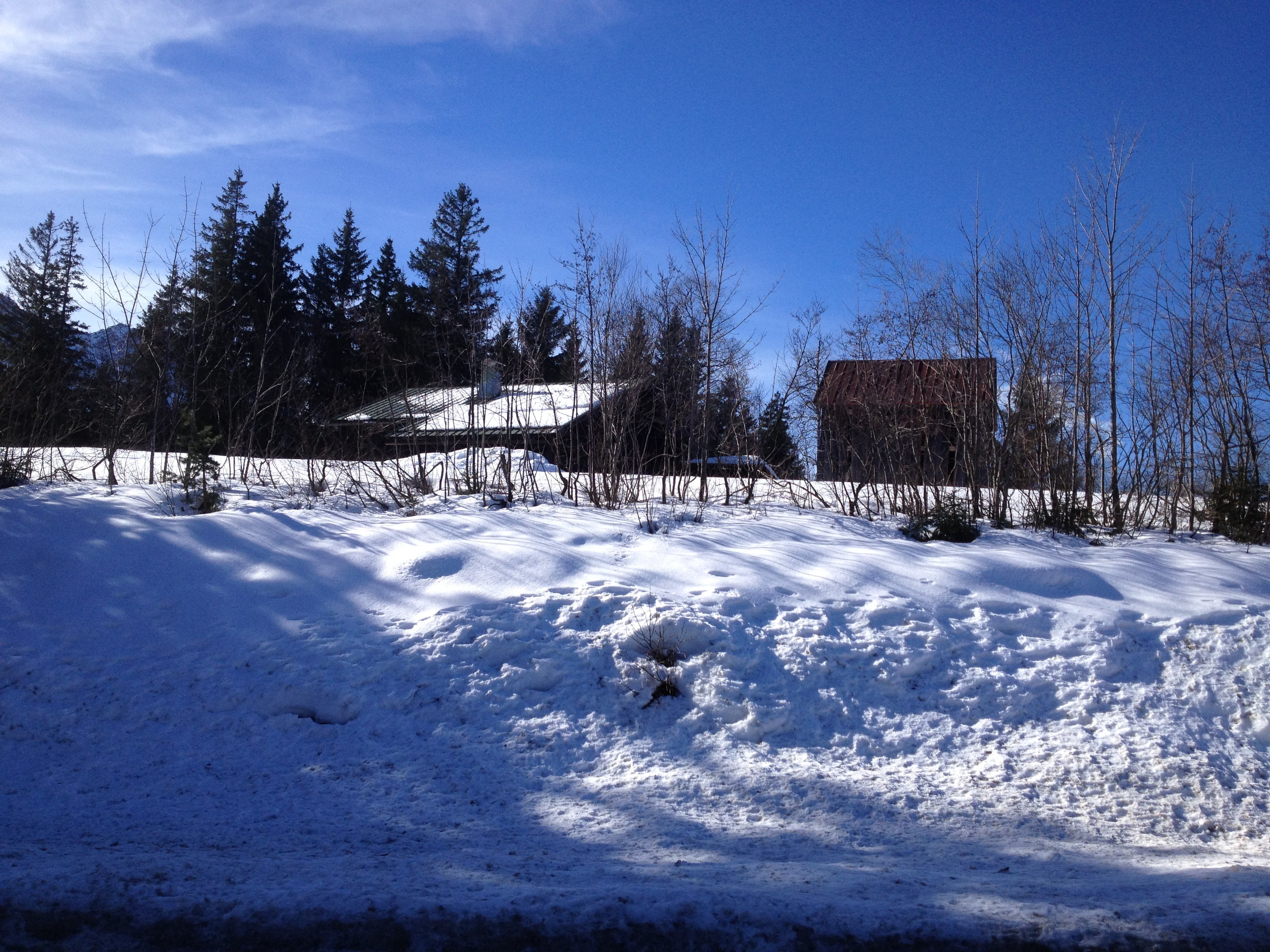 Albert Ganzenmüller's private house at Oberjoch.